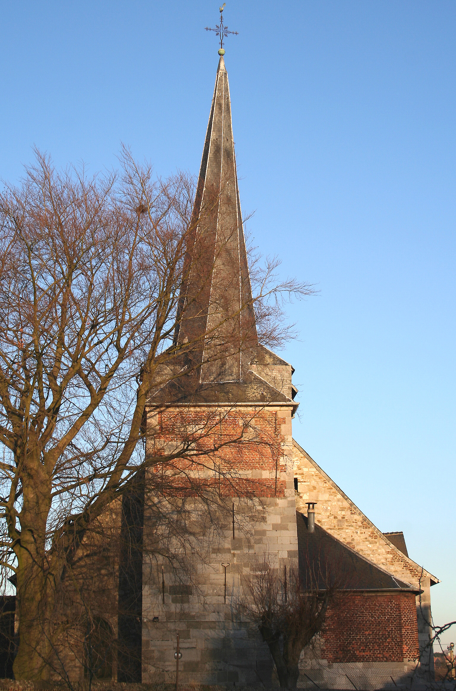 Leernes(Belgium), the St. Martin church (1621).